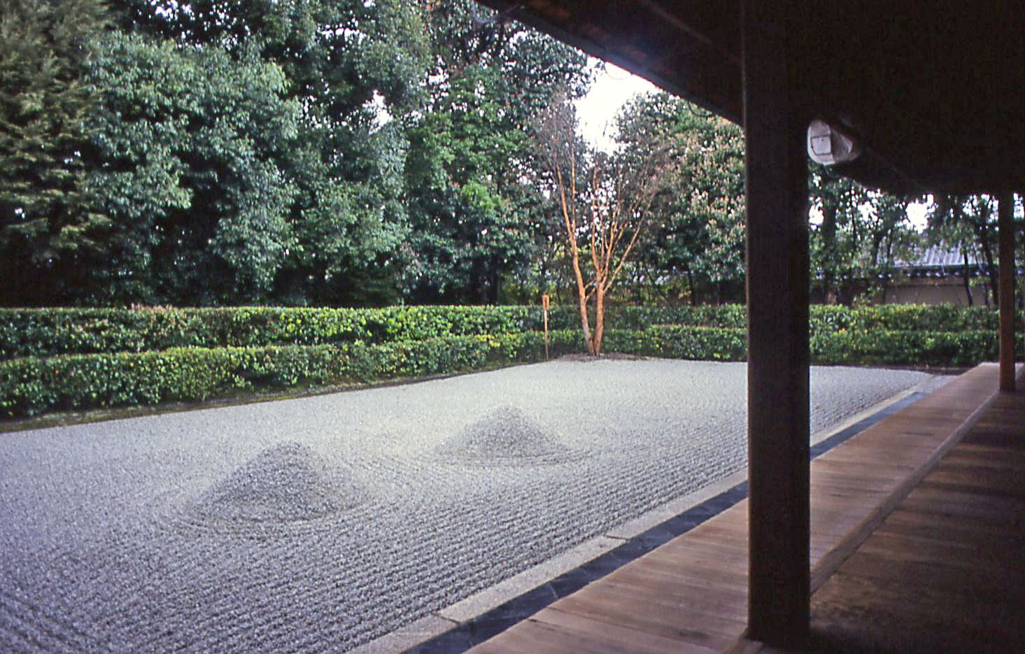 Daisen-in, XVI c. South garden. Daitoku-ji, Kyoto